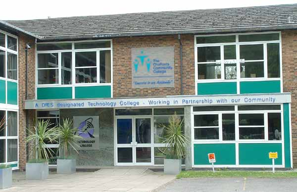 chalfont community college taken by Frederick Clarke 2006